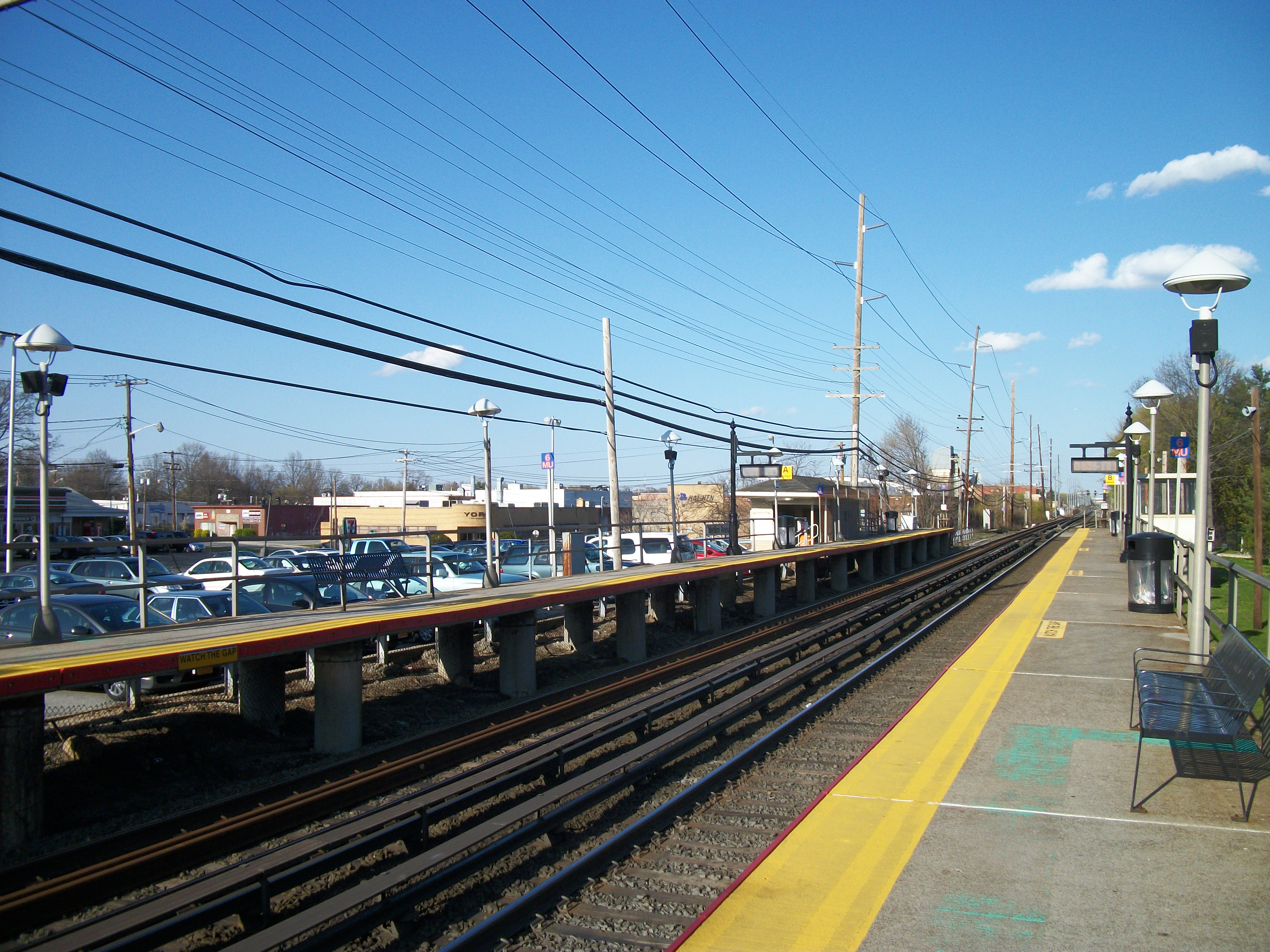 Looking east towards Hicksville and Suffolk County, New York from Merillon Avenue (LIRR station) in Garden City, New York.